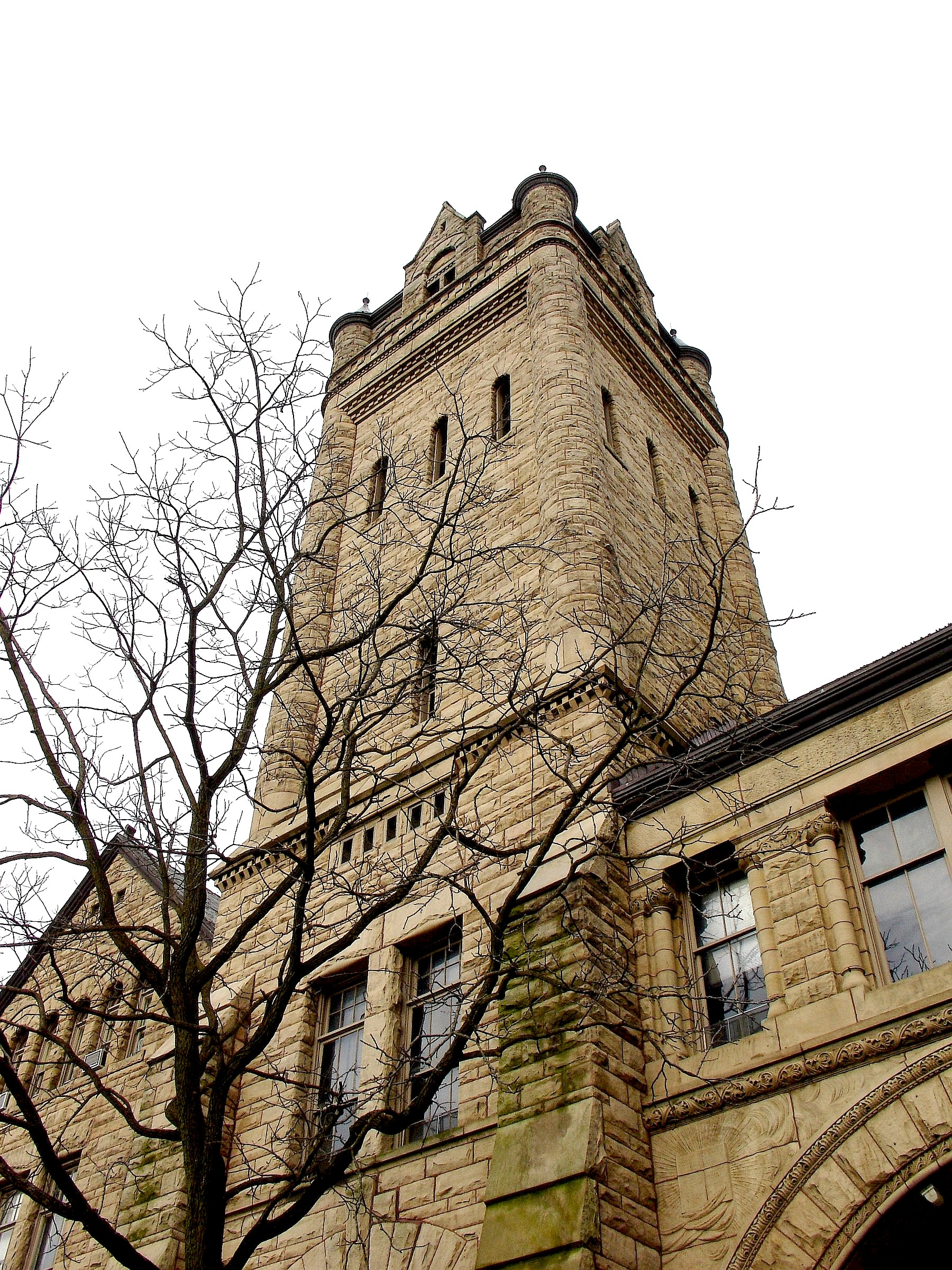 Gray Chapel at Ohio Wesleyan University